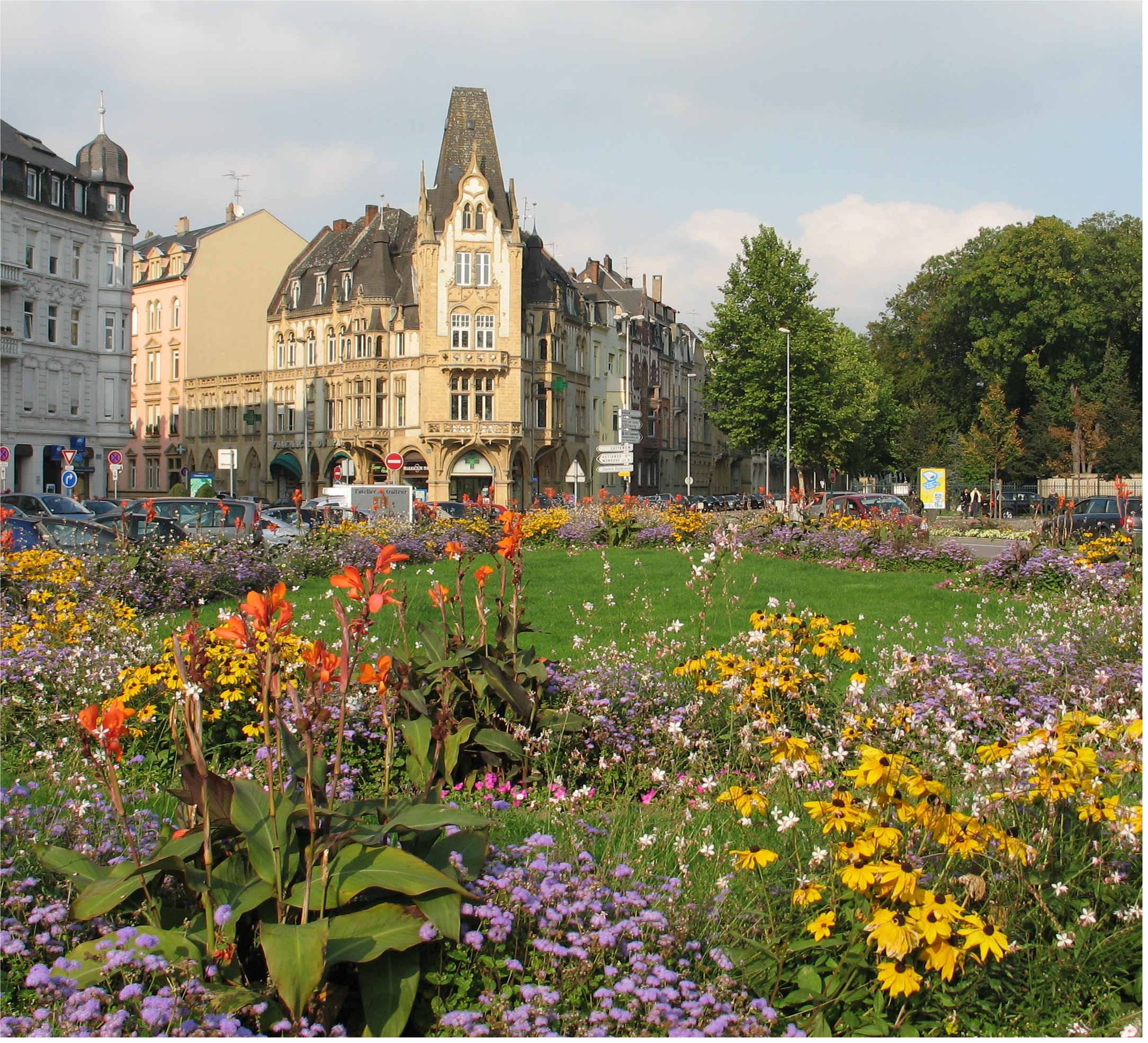 Flower garden in city of Thionville, France